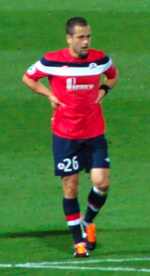 Joe Cole (LOSC vs CSKA Moscow, Champions League)